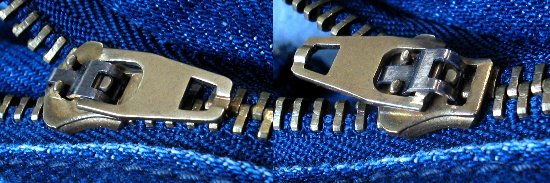 Zipper with slider equipped with a safety catch, characterized by an elastic hinge drawer that is stationary engaging the teeth of the chain metal spiral.